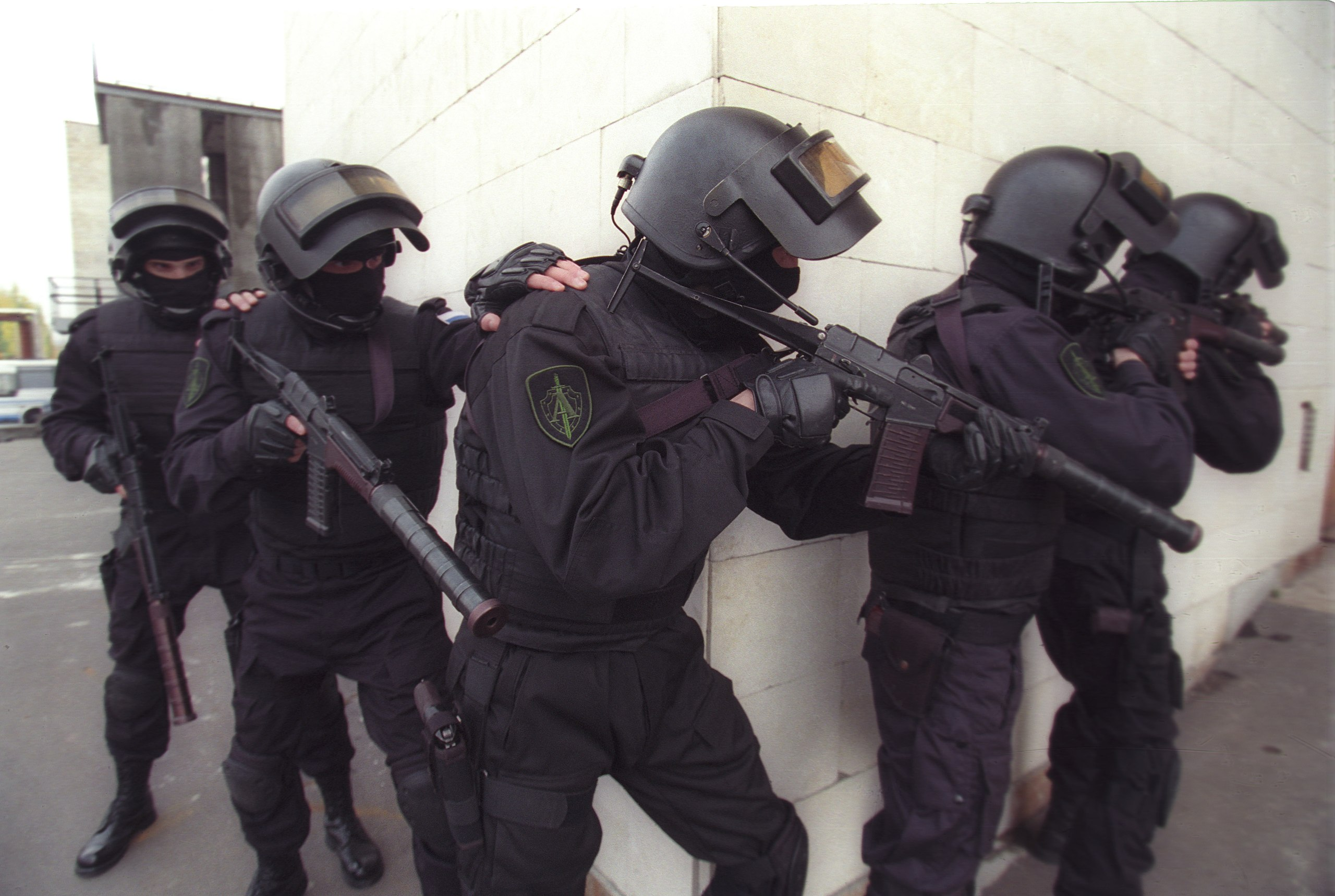 Alpha Group - elite, stand-alone sub-unit of Russia's special forces and is a dedicated counter-terrorism task-force of the Russian Federal Security Service (FSB).